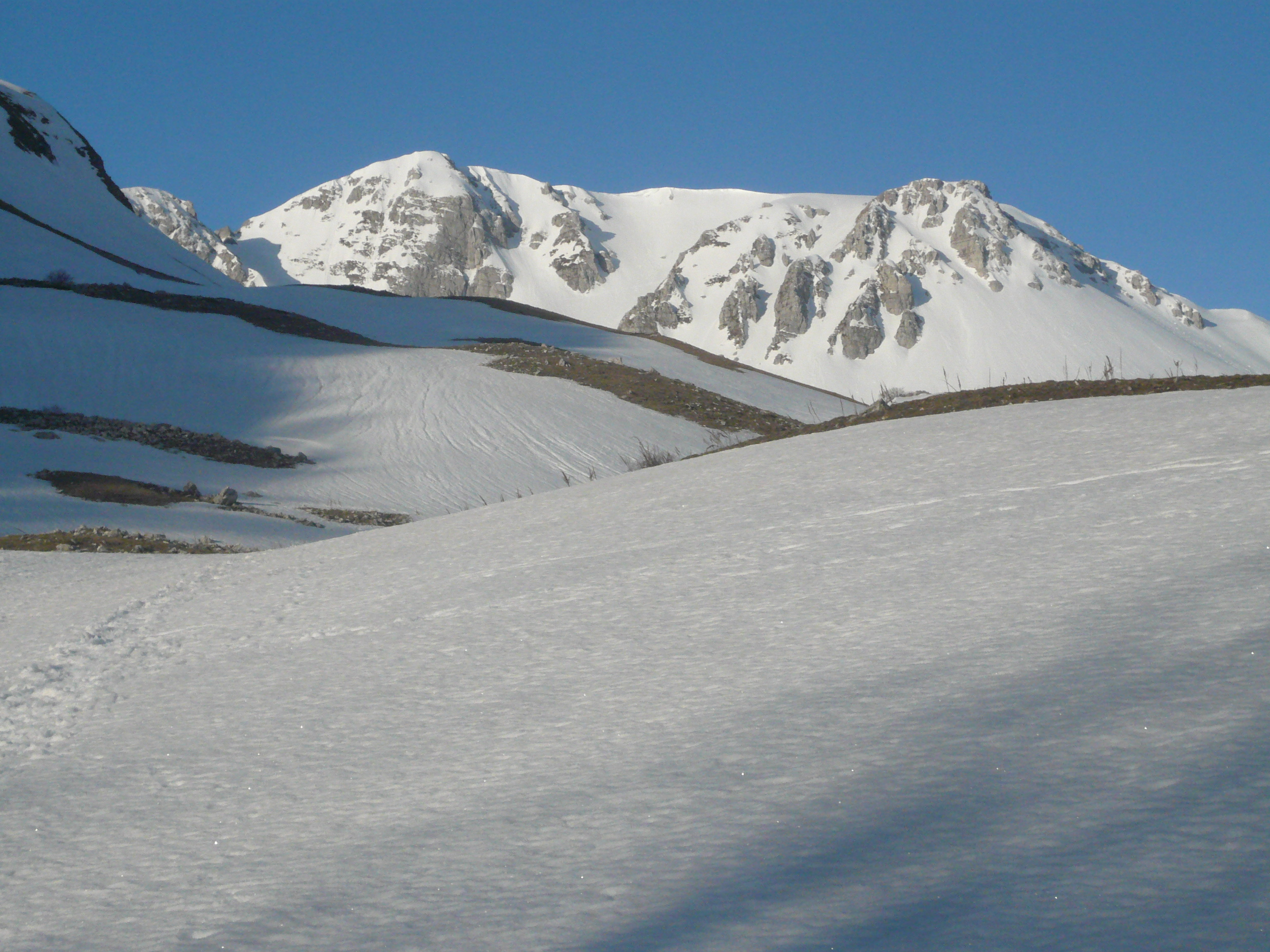 Monte Meta, North face This is a photo of a monument which is part of cultural heritage of Italy.